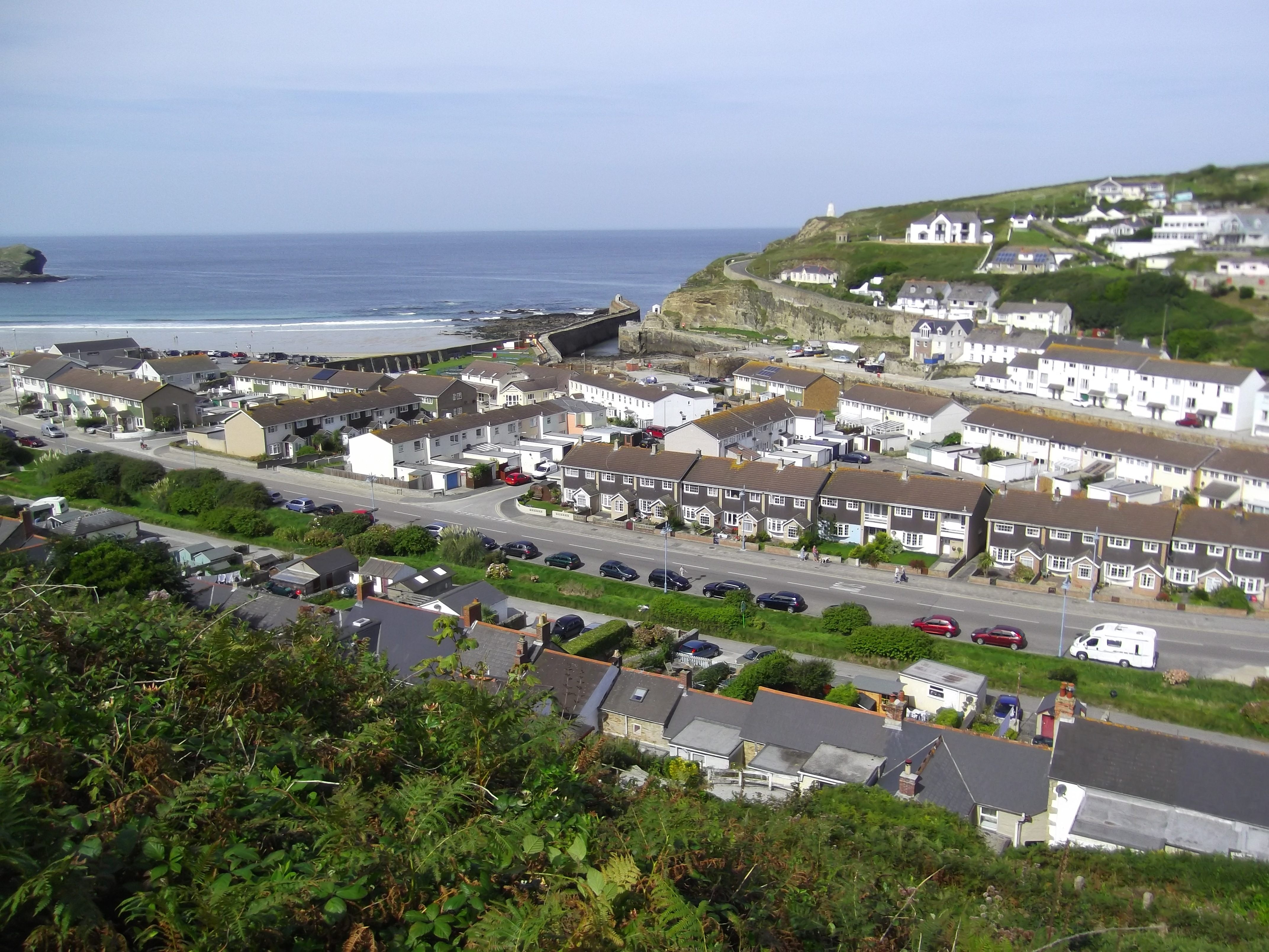 View over Portreath, Cornwall England